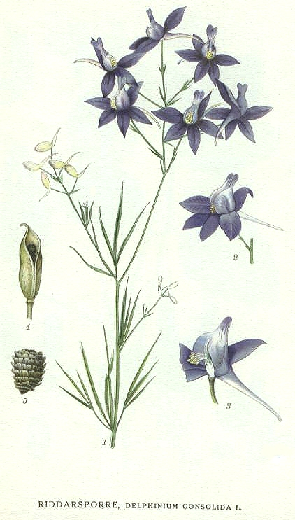 Consolida regalis S. F. Gray, syn. Delphinium consolida L. Original Description Riddarsporre, Delphinium consolida L.